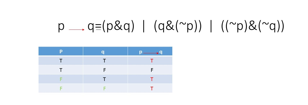 فرم نرمال فصلی اصلی